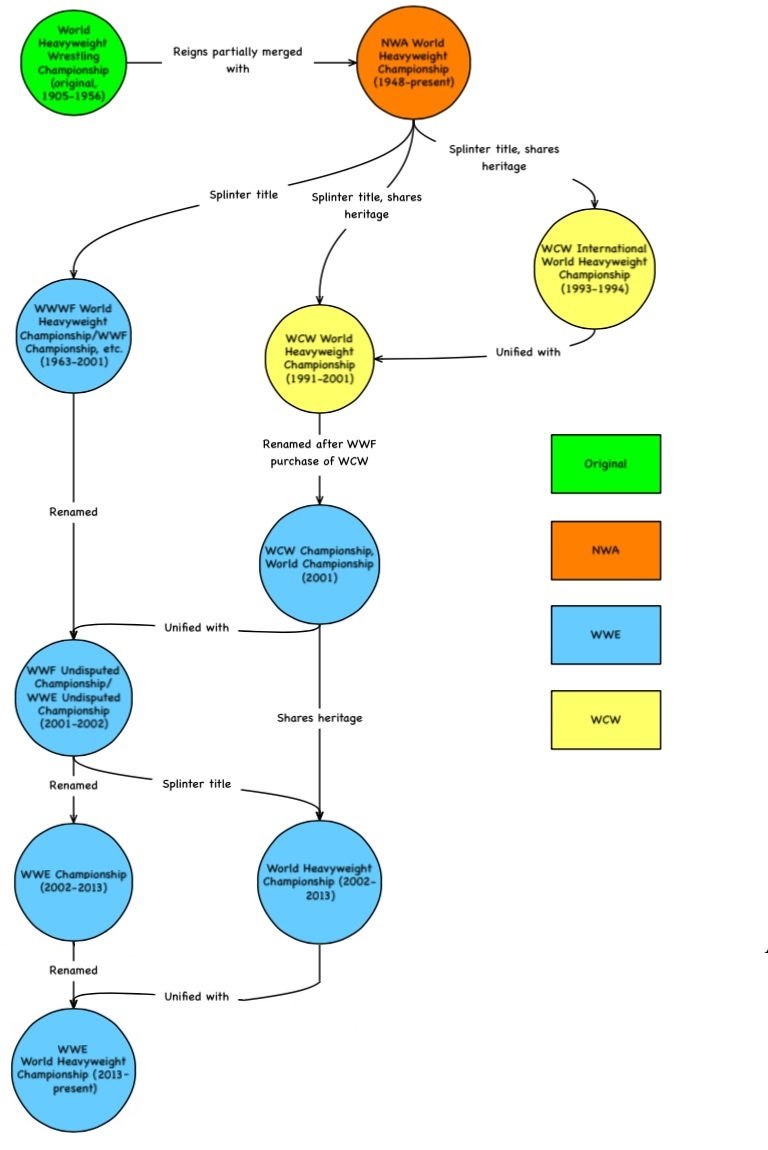 A flowchart demonstrating the lineage of WWE's current world title, as according to the DVD "History Of The World Heavyweight Championship", WWE, 2009; and "Classy Freddie Blassie: Listen, You Pencil Neck Geeks" (p 137-8, Gallery Publishing, 2004).